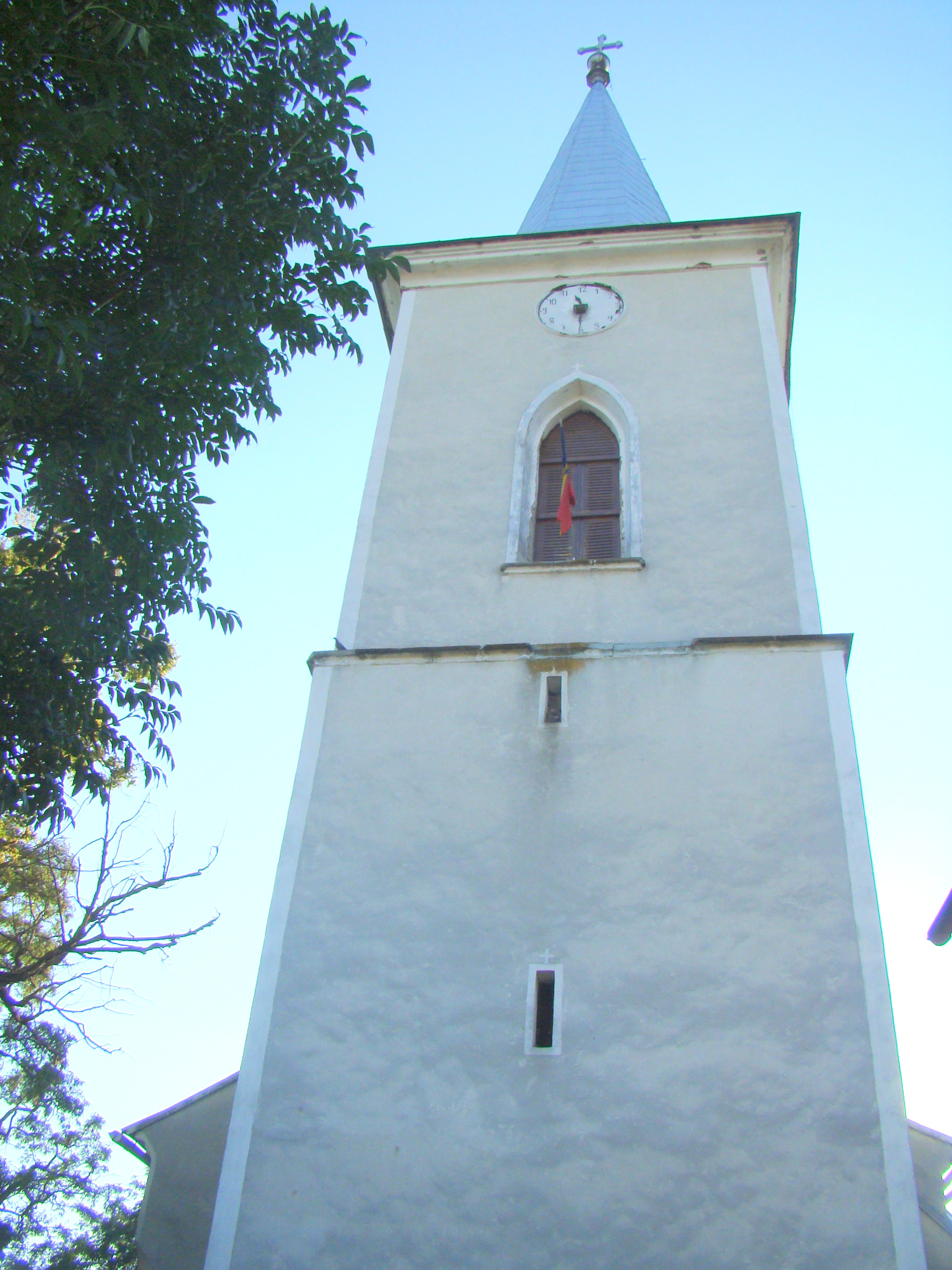 Church of the Annunciation in Cepari, Bistrița-Năsăud county, Romania